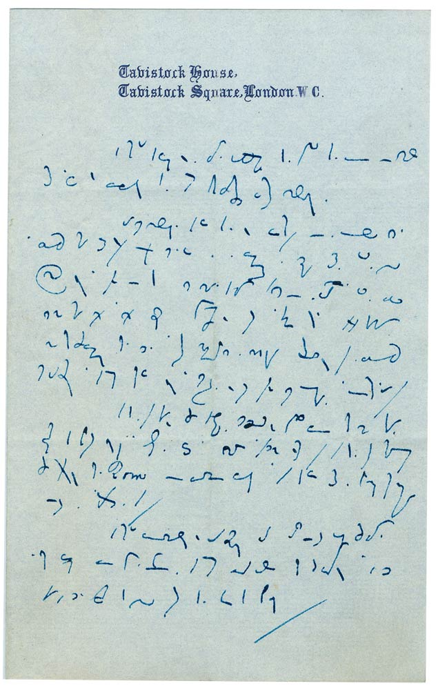 Sample of Charles Dickens's shorthand